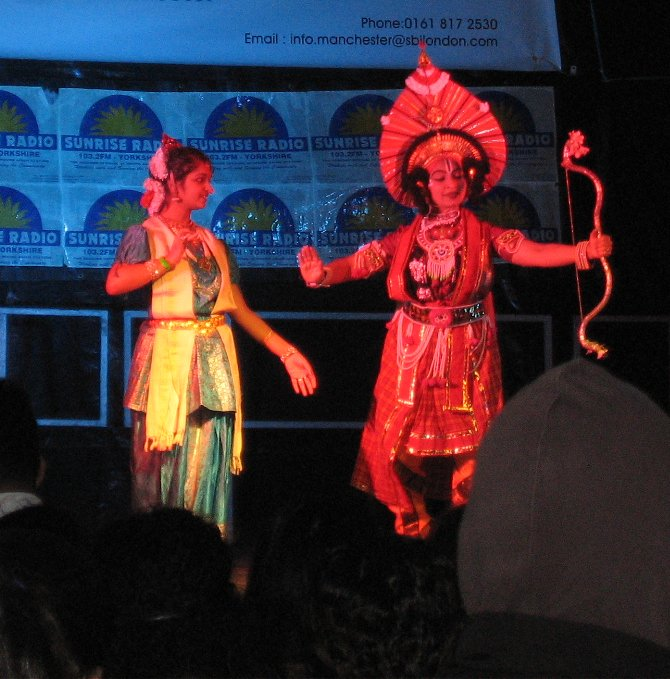 Dance performance of the Ramayana in Manchester during Divali 2006.Rama and Sita together at last